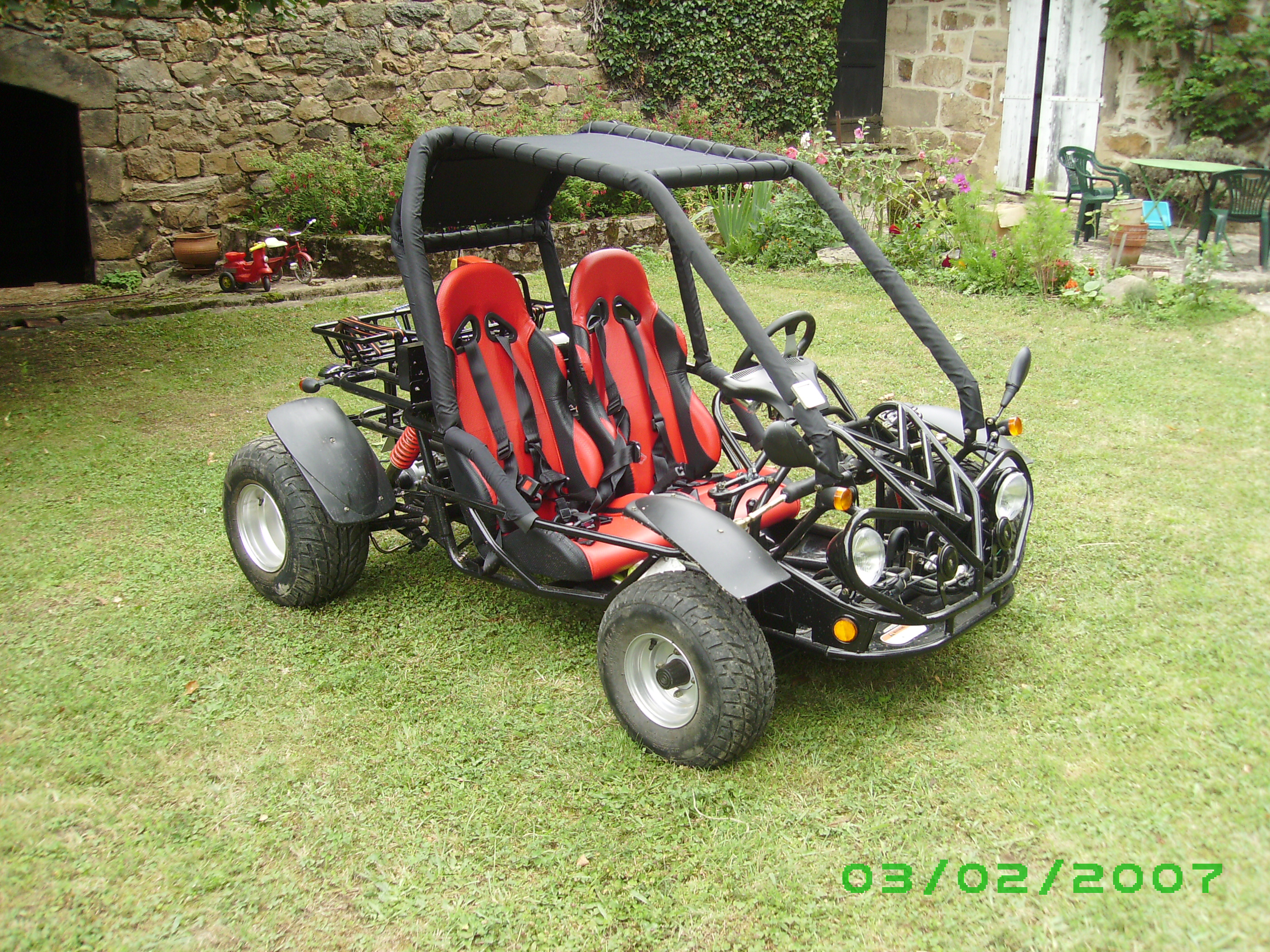 Chinese buggy